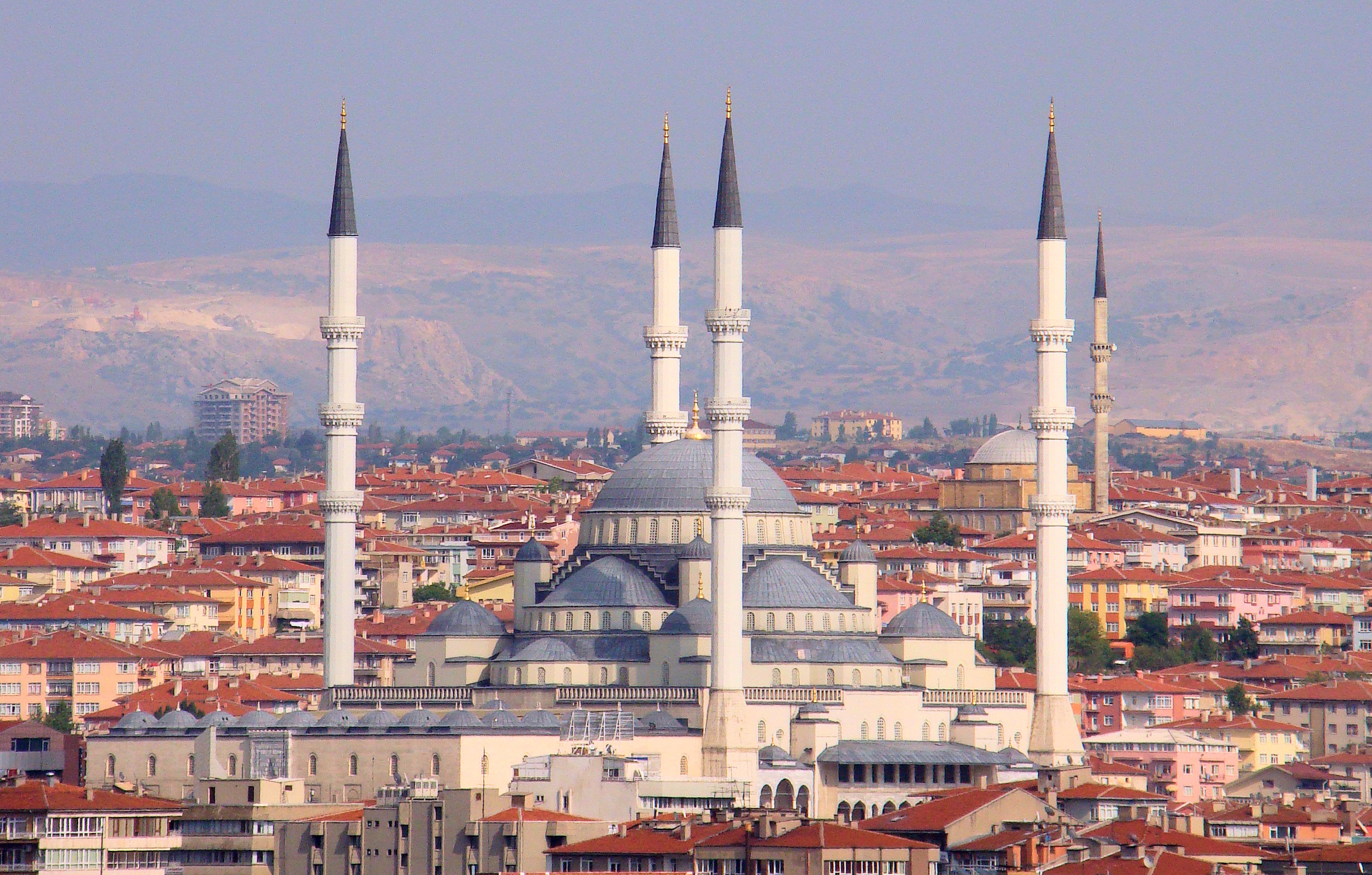 Kocatepe Camii ("Kocatepe Mosque") in Ankara, Turkey, has room for a 100,000 worshippers, making it one of the largest mosques in the world.